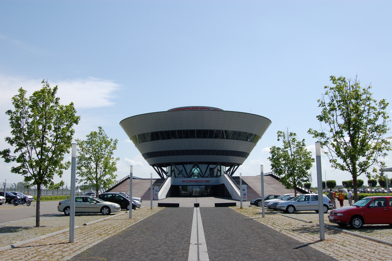 The "Diamond" called main-building at Porsche Leipzig